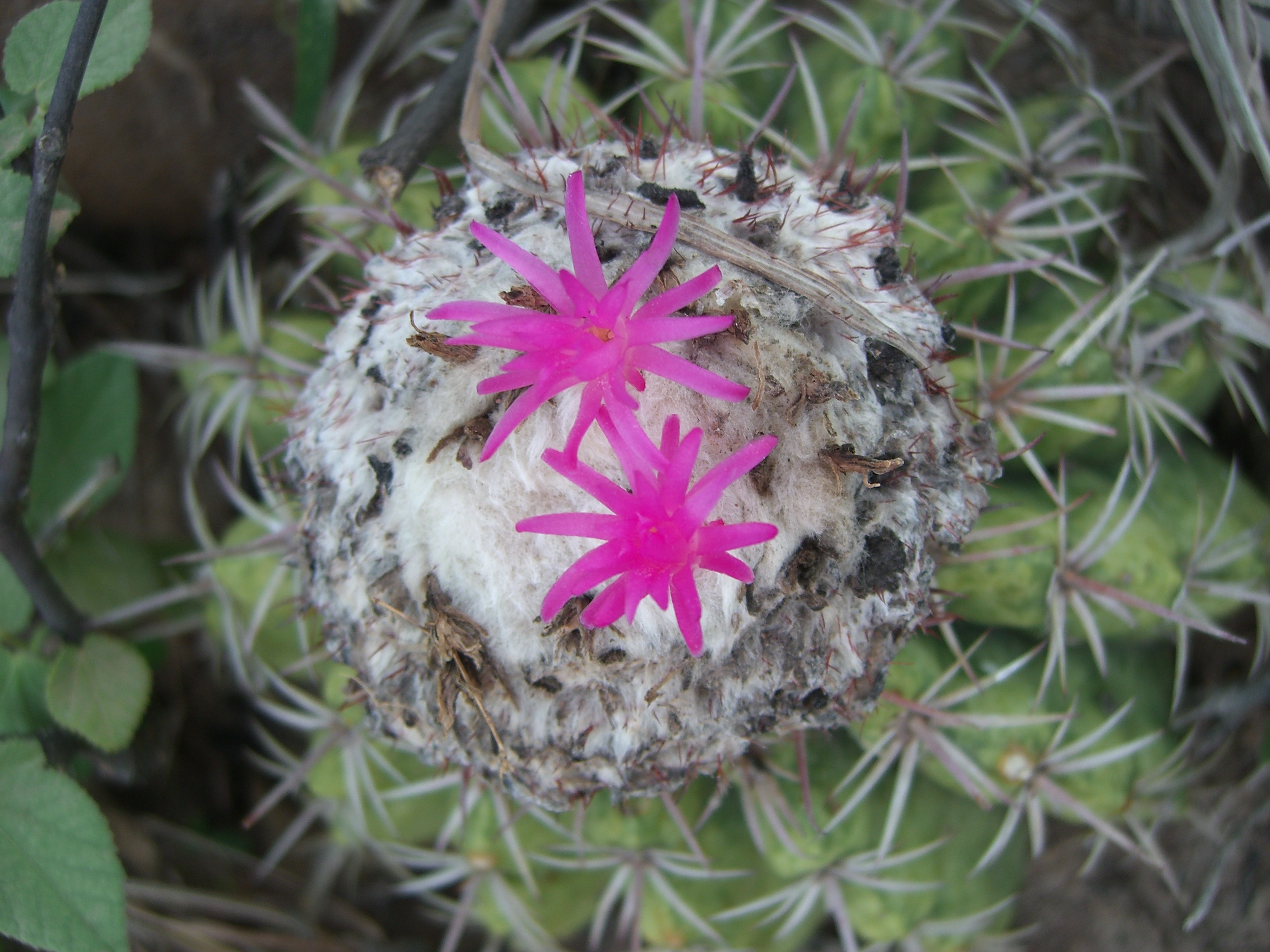 Determined by Benutzer:Succu